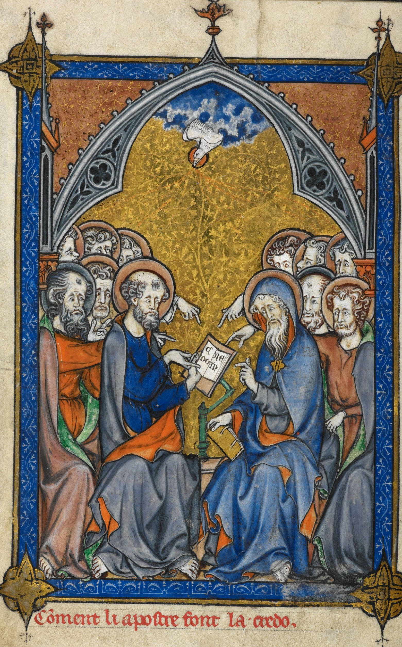 The twelve Apostles receiving inspiration from the Holy Spirit and composing the Creed, from Somme le Roy, a moral compendium